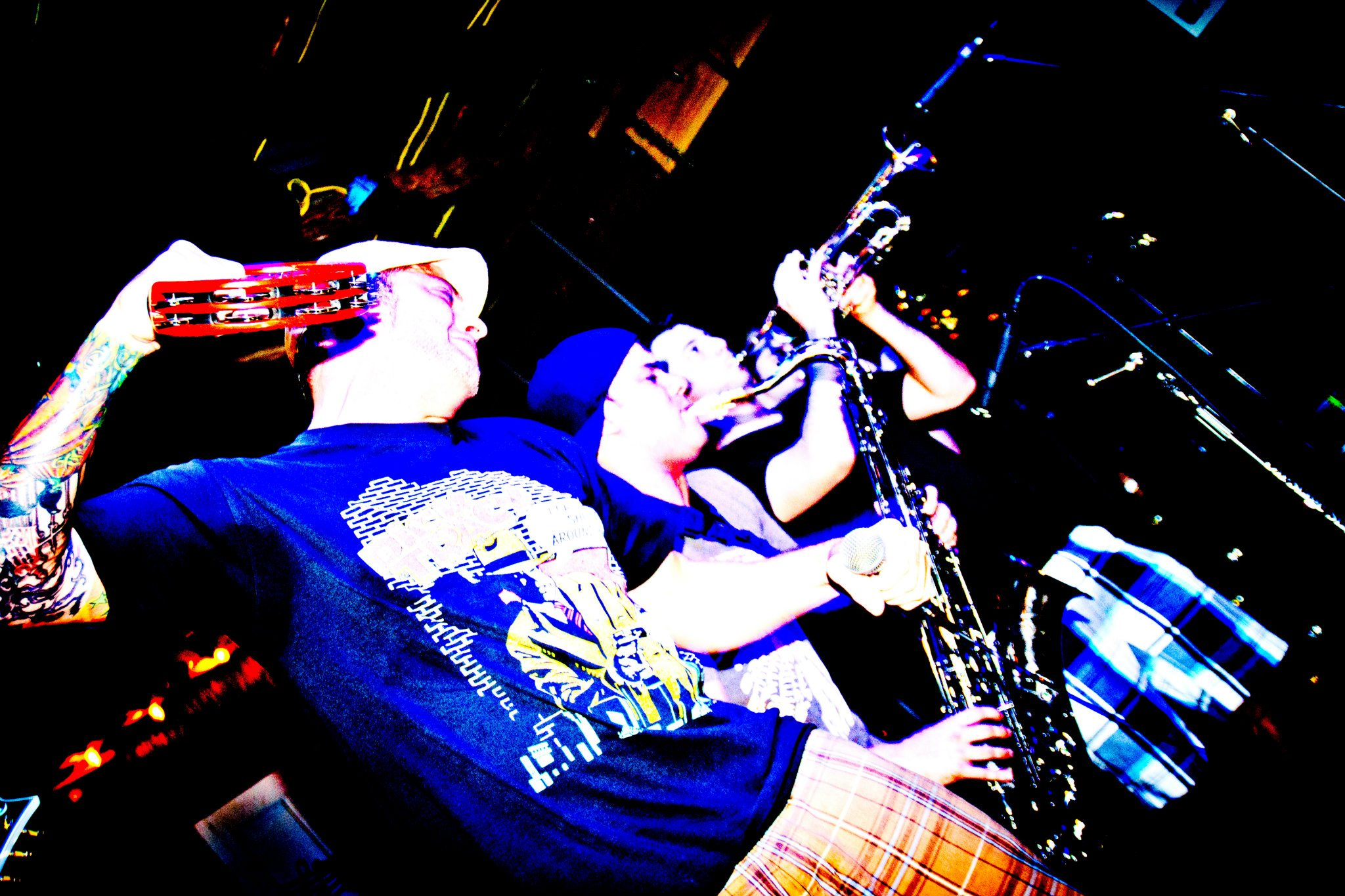 Bayou Beer Garden Performance